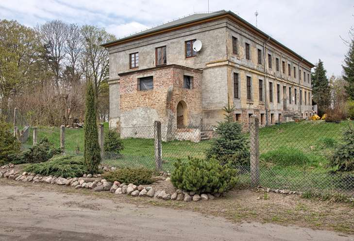 Budziszewko pałac Łubieńskich